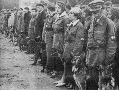 Soviet military dog training school in Moscow Oblast